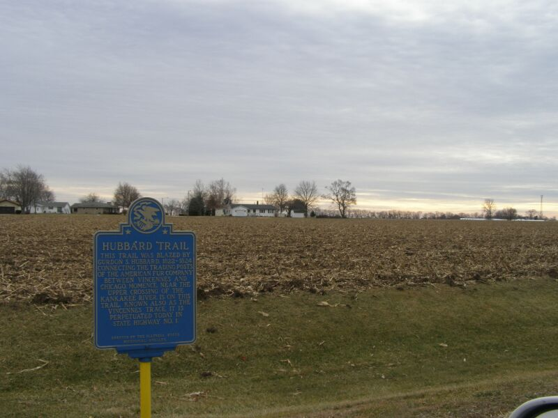 Hubbard Trail Marker (Old Vincennes Trail) near Momemce, Illinois